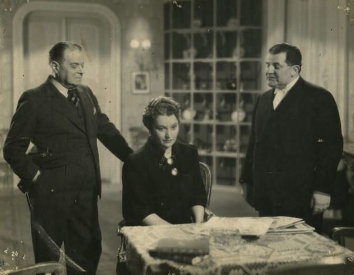 Scene from the Hungarian movie titled Cifra nyomorúság (Window Dressing) (released in 1938)